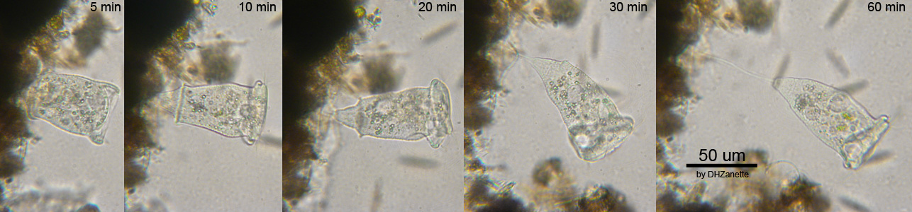 A telotroch, recently fixed to the substrate, grows its stalk and becomes a vorticella.